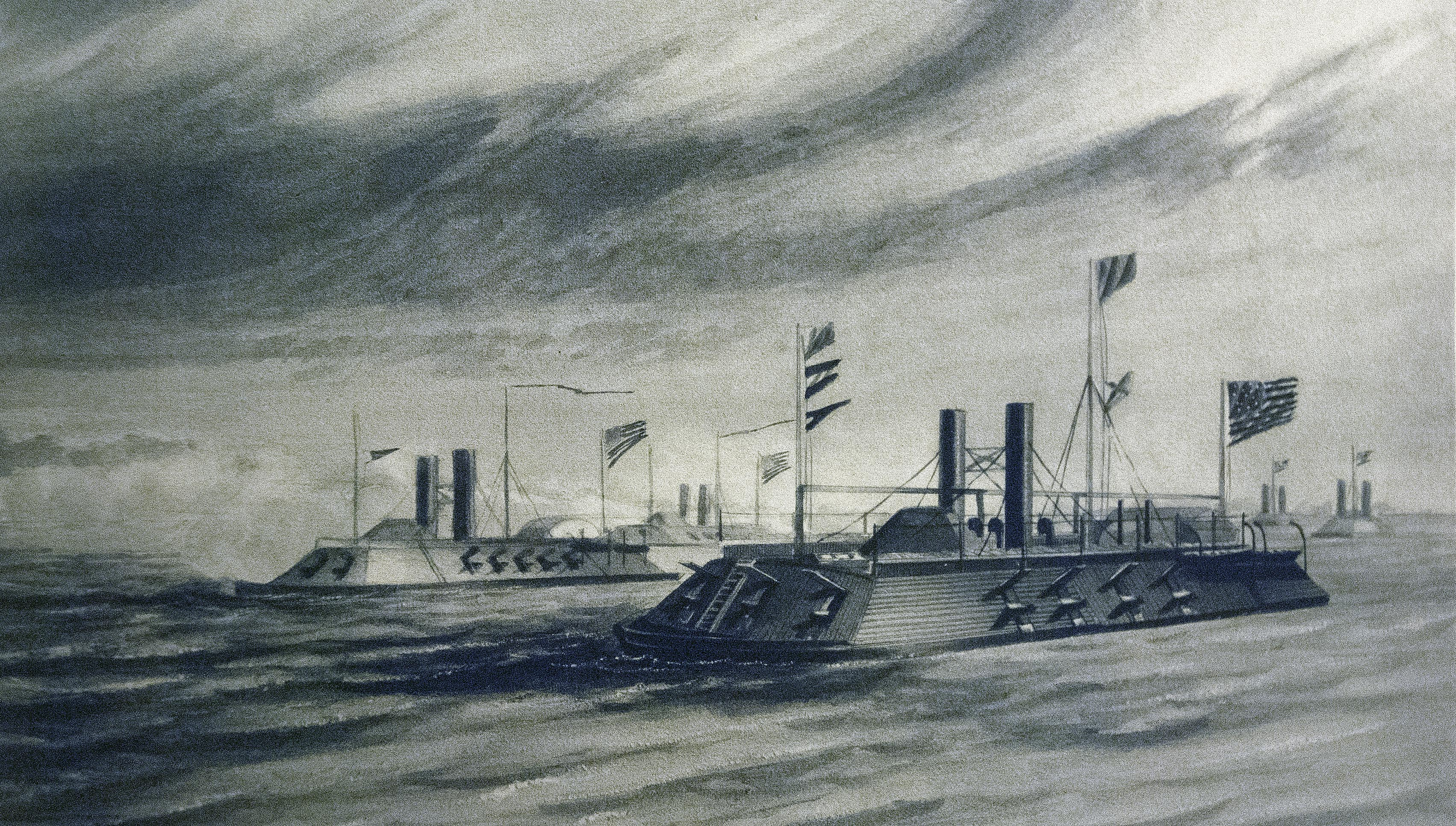 LOT 10469-3: Rear Admiral David D. Porter’s Flag Ship, Mississippi Squadron. Photo-types by Gutekunst of water color paintings by A.C. Stewart, an Engineer in the U.S. Navy during the War of the Rebellion, compliments of the William Cramp and Sons Ship and Engine Building Company to Colonel W.B. Remey, USMC, Judge Advocate General, circa 1880s. Courtesy of the Library of Congress. (5/22/2015).